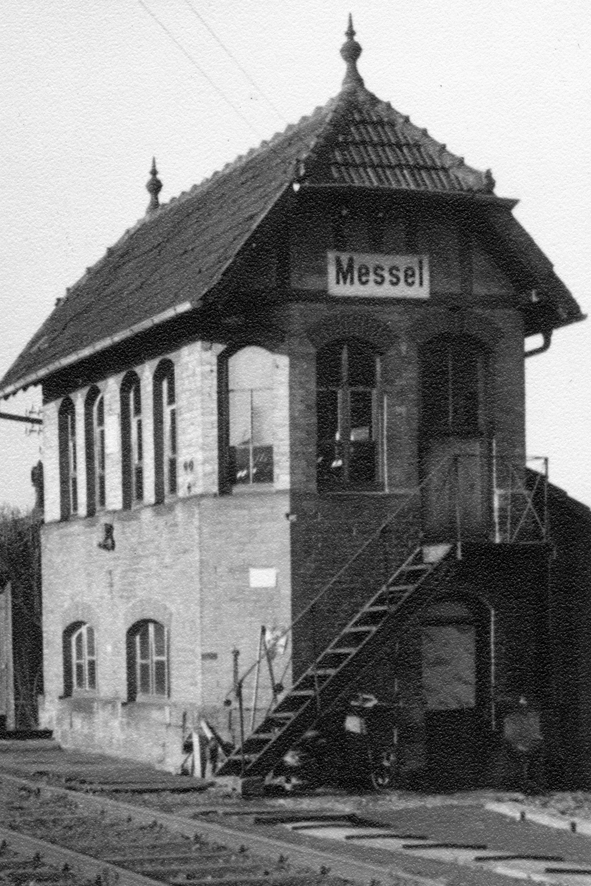 Signal box, Messel station